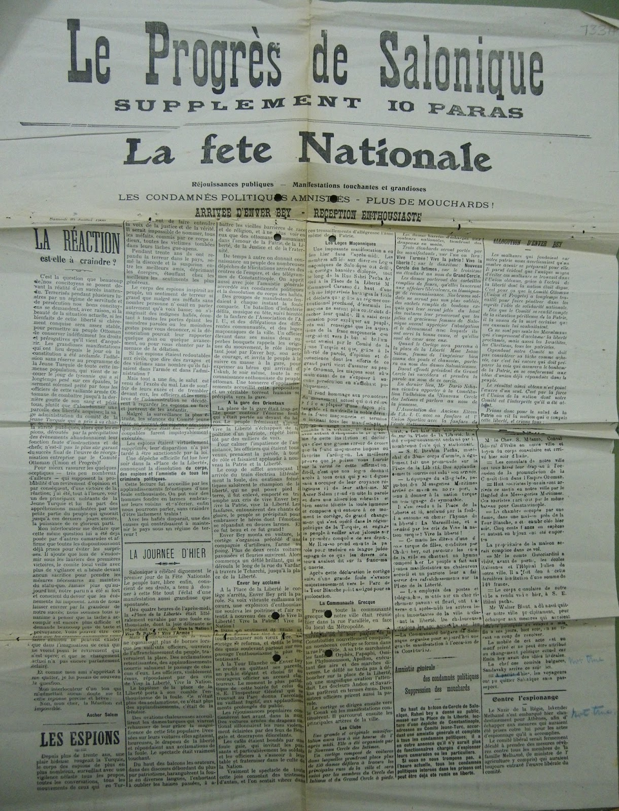 Le Progrès de Salonique